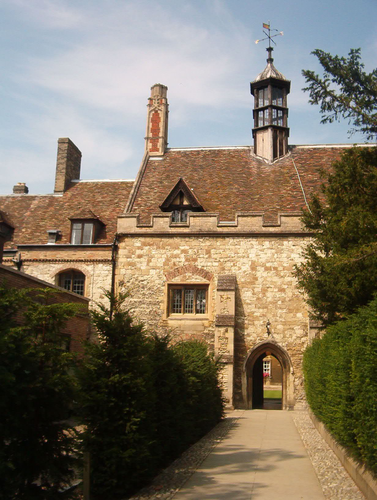 Exterior view of the Hall, Peterhouse, Cambridge. Photo by Azeira, August 2004.